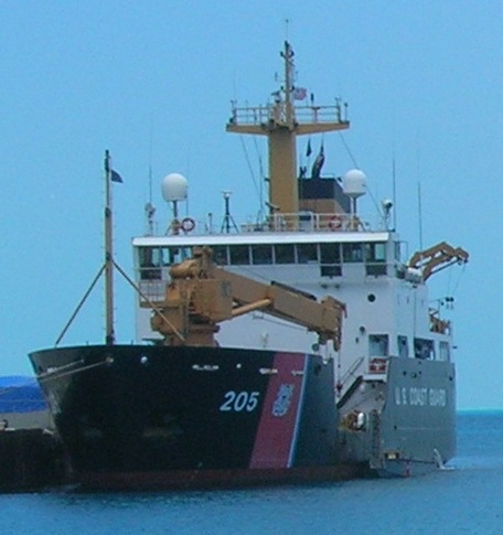 USCGC Walnut.